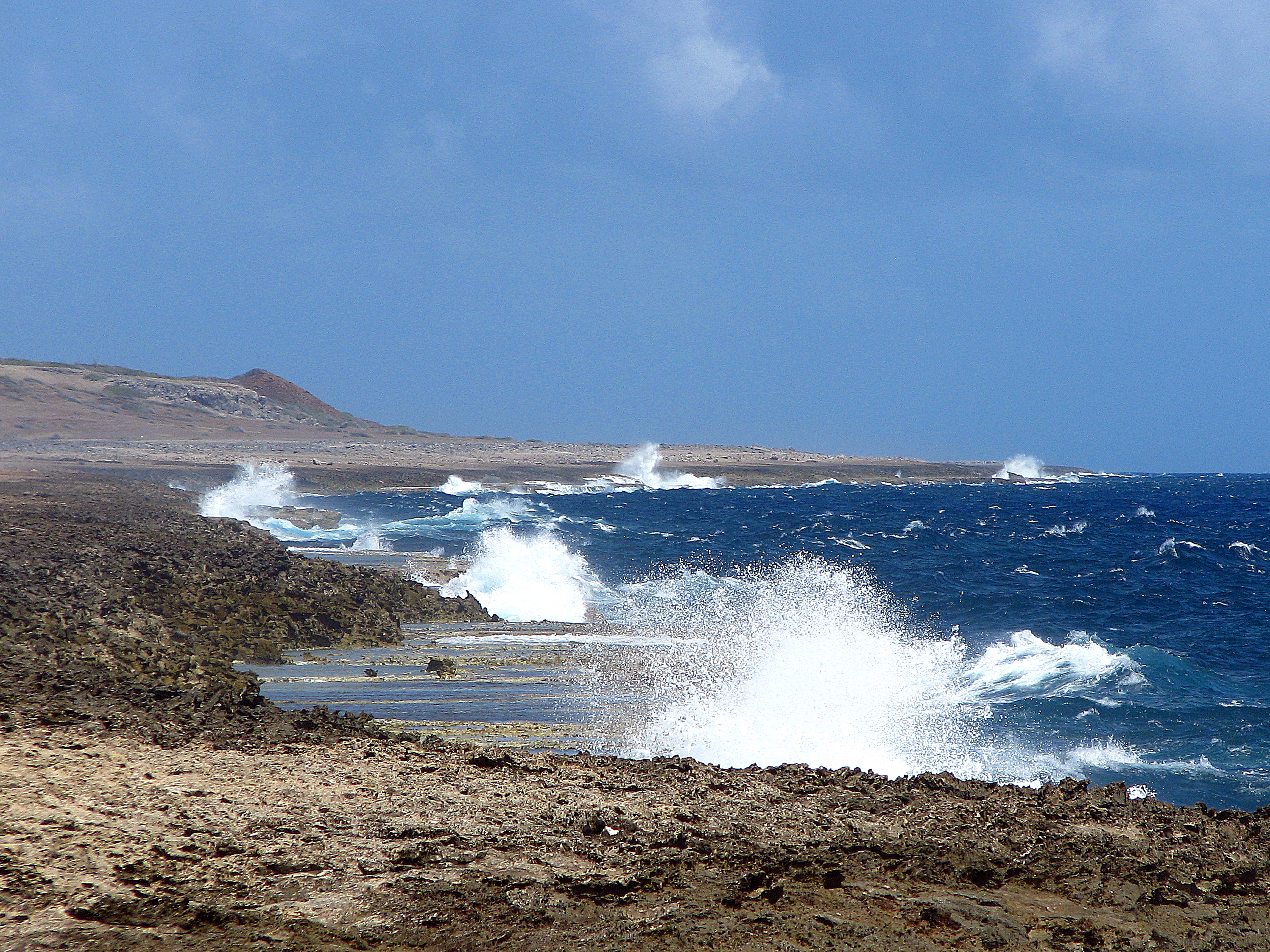 The rugged north coast of Curaçao at Shete Boka national park.